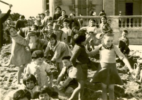 Unidentified photograph. Citation: Lois Gunden Clemens Photograph Collection. France, 1941-1942. HM1-926 Box 1 Folder 9. Mennonite Church USA Archives - Goshen. Goshen, Indiana.